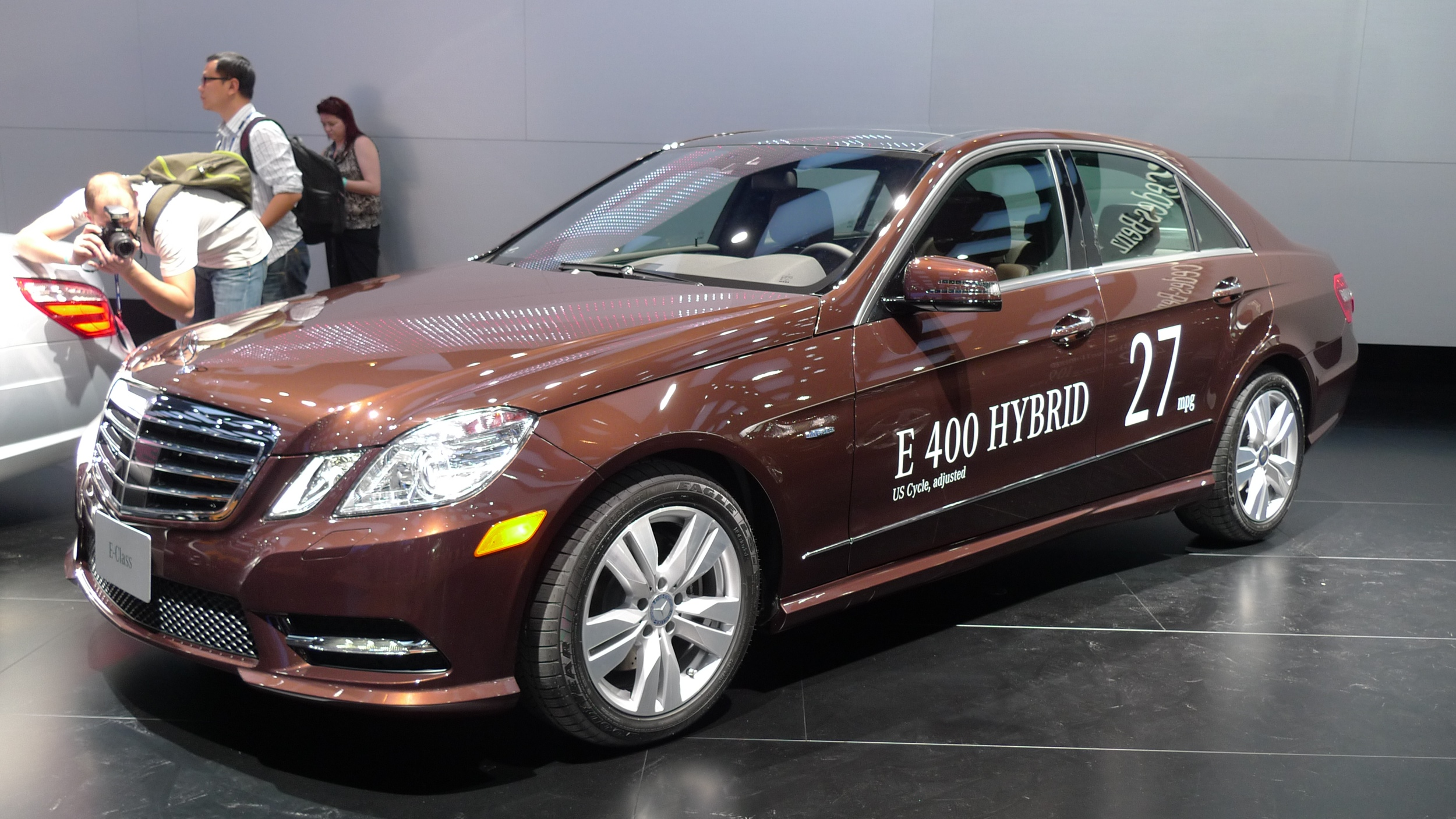 2013 Mercedes-Benz E 400 Hybrid exhibited at the 2012 North American International Auto Show, Detrioit